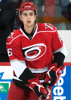 Canadian-American ice hockey player Brandon Sutter of the Carolina Hurricanes skates during warmups prior to a game against the New York Islanders on January 28, 2010.